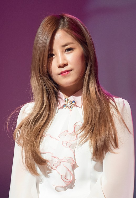 Park Chorong at Korea National University of Arts, 23 February 2015